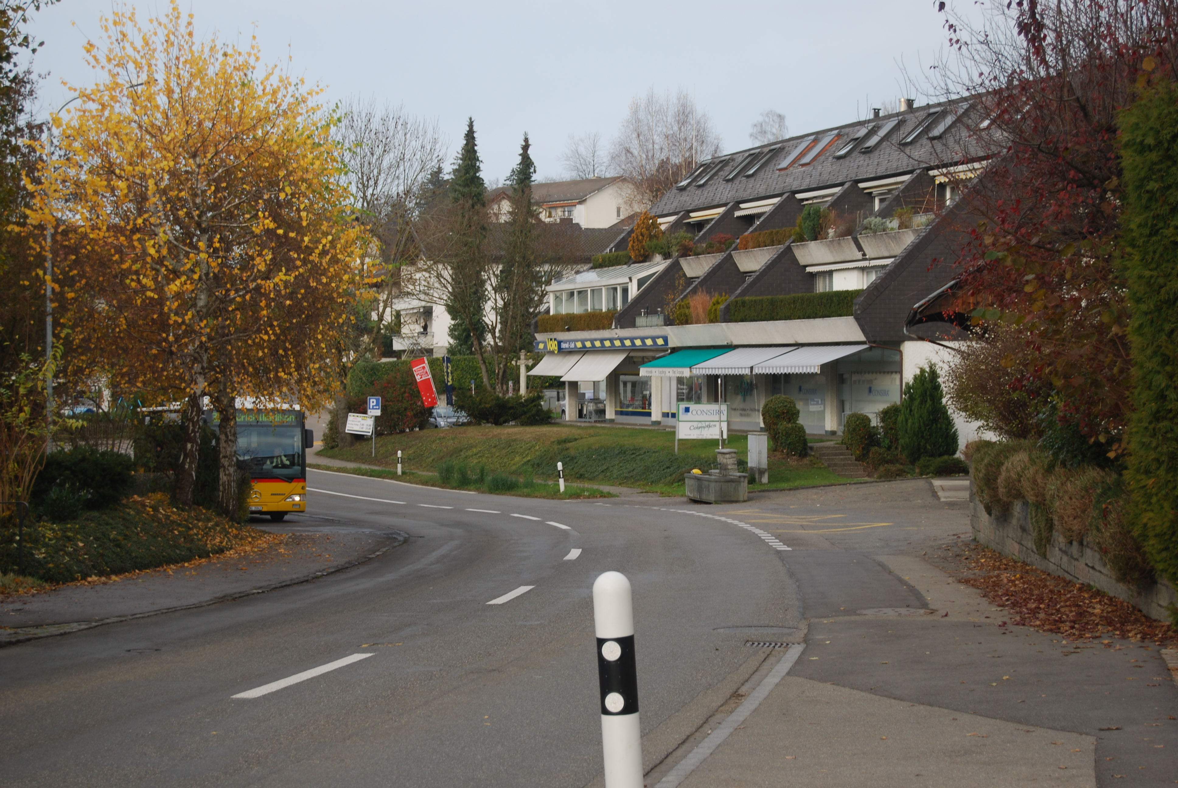 Lieli, municipality of Oberwil-Lieli, canton of Aargau, SwitzerlandEsperanto: Lieli, komunumo Oberwil-Lieli, Kantono Argovio, Svislando